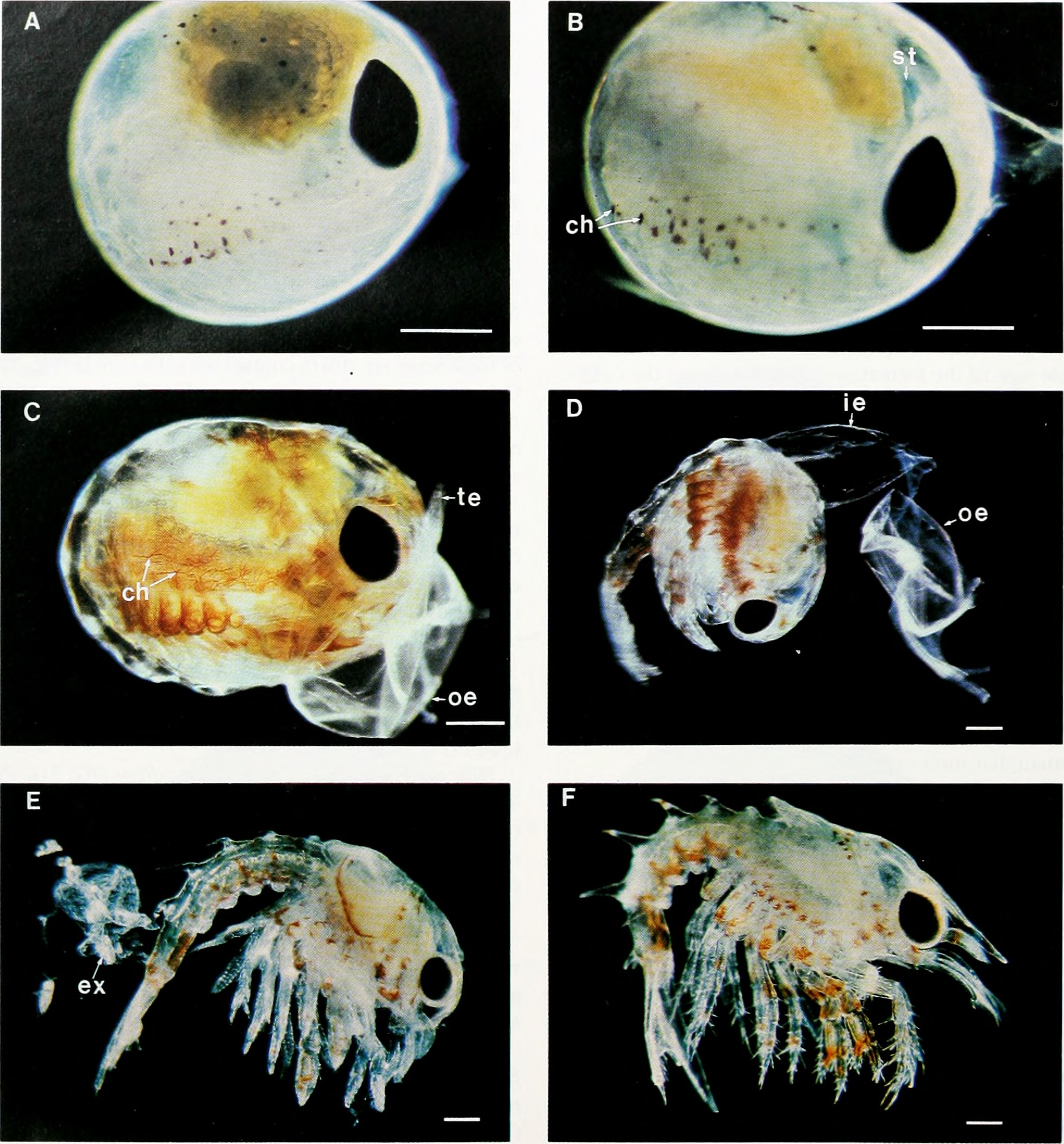 Title: The Biological bulletin Year: [1] (s) Authors: Marine Biological Laboratory (Woods Hole, Mass. ); Marine Biological Laboratory (Woods Hole, Mass. ). Annual report 1907/08-1952; Lillie, Frank Rattray, 1870-1947; Moore, Carl Richard, 1892-; Redfield, Alfred Clarence, 1890-1983 Subjects: Biology; Zoology; Biology; Marine Biology Publisher: Woods Hole, Mass. : Marine Biological Laboratory Text Appearing Before Image: 362 S. M. HELLUY AND B. S. BELTZ Text Appearing After Image: Figure 4. Perihatching development of Homarus americanus. In all these photographs of unfixed spec- imens, dorsal side is at the top, and anterior is right. (A) 90% embryonic development. (B) Embryo just prior to hatching (100%, blue embryo): note the blue tinge of the hemolymph, the blue stomach (st) and the red chromatophores (ch) in which the pigment is still concentrated. (C) Hatchling: the outer (oe) egg envelope has burst, and the telson (te) is piercing the inner egg envelope; the red pigment has spread in the star-shaped chromatophores (ch). (D) The metanauplius (prelarva, prezoea) is now free of both outer (oe) and inner (ie) egg envelopes. (E) Early first larval stage (first zoea): the exuvia (ex) of the metanauplius has been sloughed. (F) Mature first larval stage: rostrum, abdominal spines, and other acuminate structures are now erect. Scale bars: 500 nm.